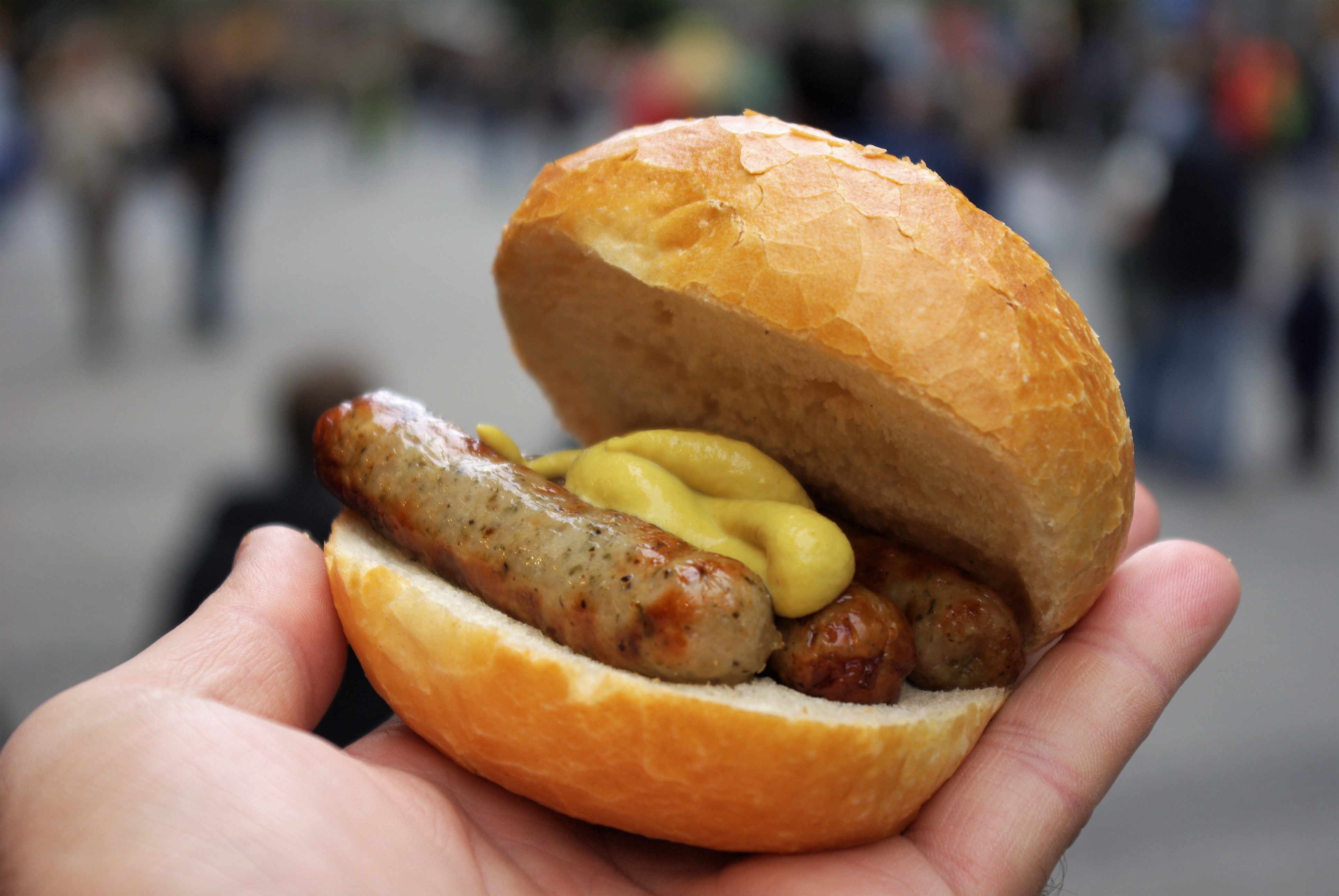 offering variatal “three in a roll”